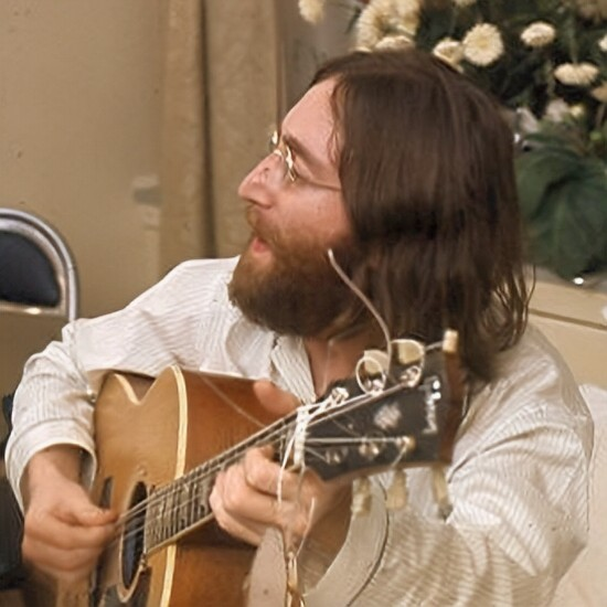 John Lennon rehearses Give Peace A Chance by Roy Kerwood